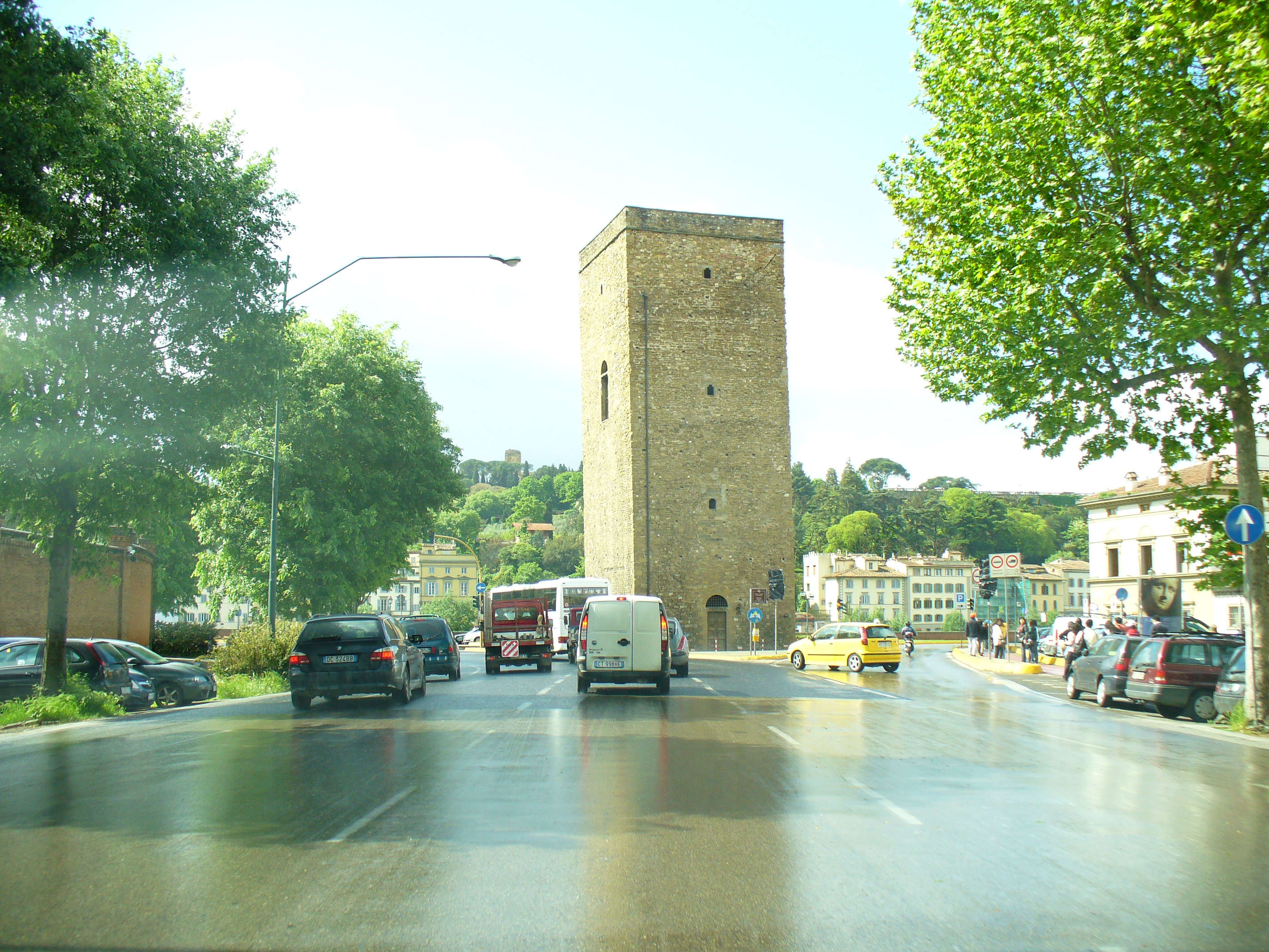 Viale Giovine Italia (Florence)